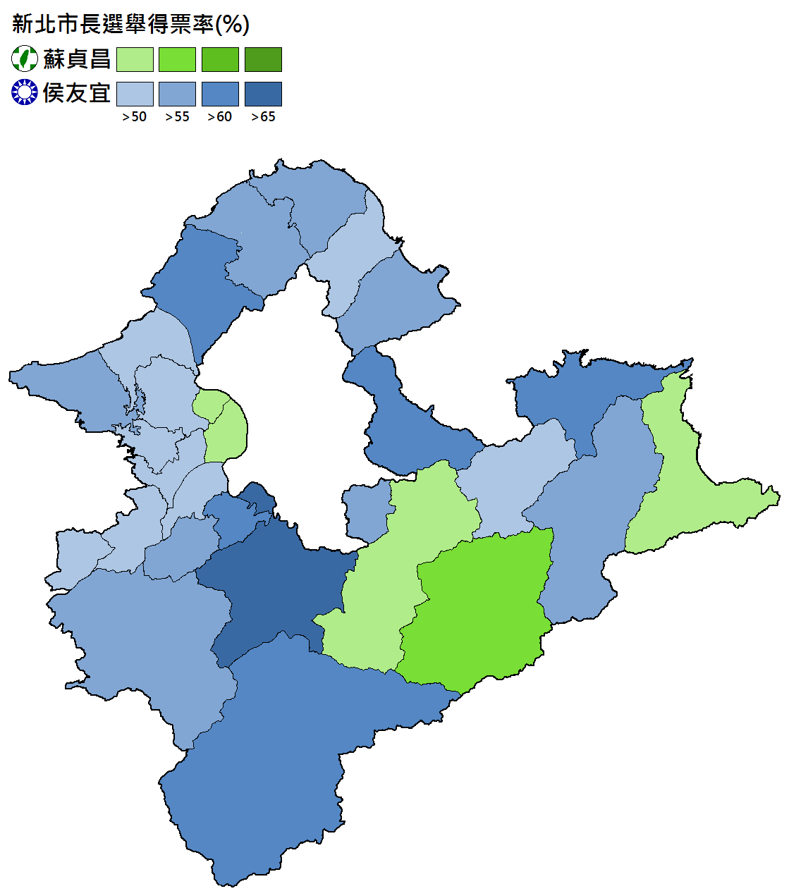 This is a result of the local election in New Taipei City(Xinbei)